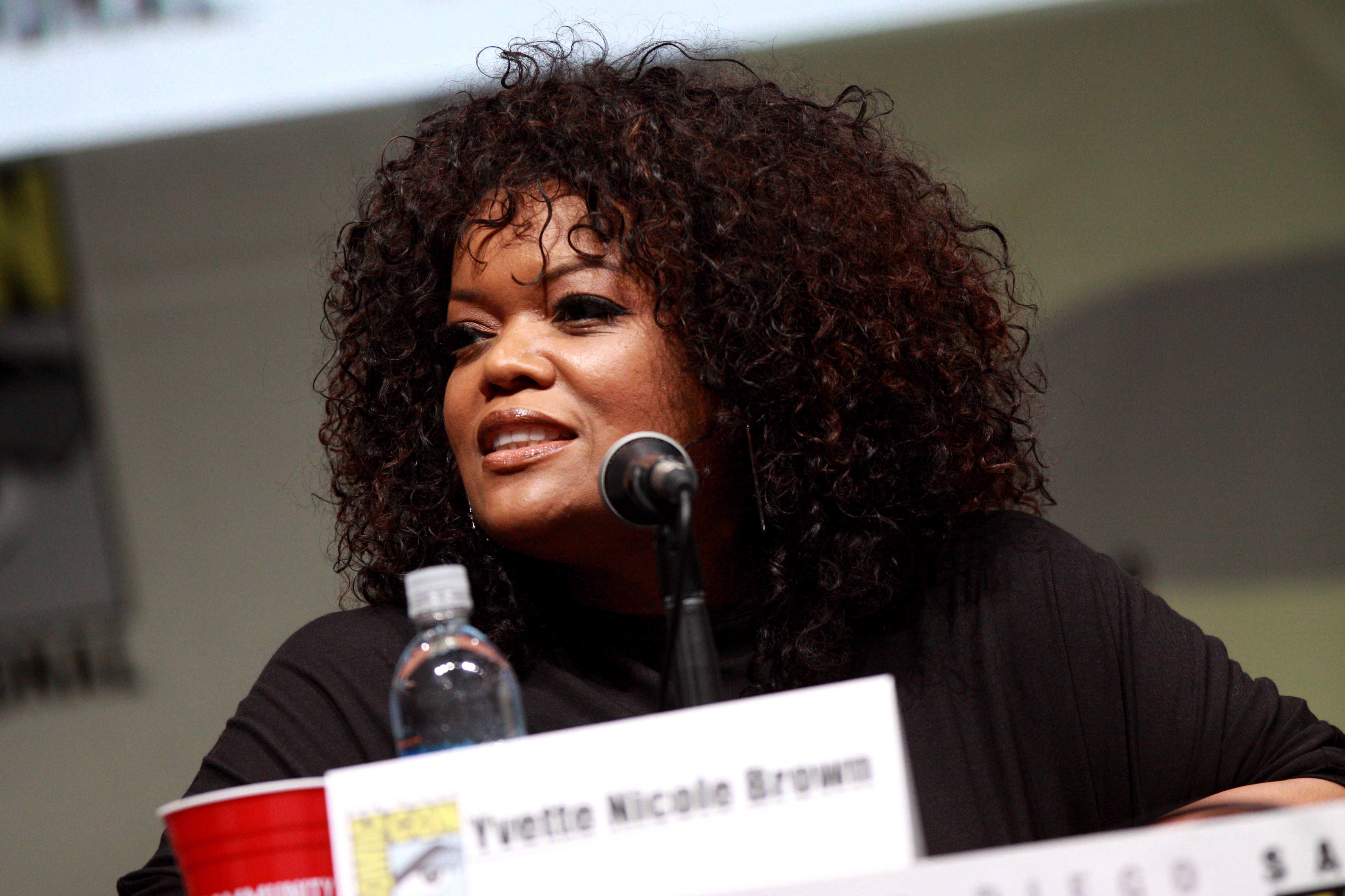 Yvette Nicole Brown speaking at the 2013 San Diego Comic Con International, for "Community", at the San Diego Convention Center in San Diego, California.